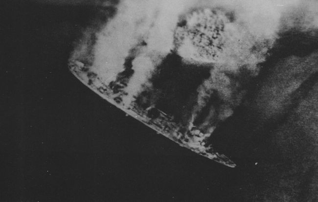 Repair ship Akashi burning as the result of US carrier aircraft attack, Palau Islands, 30 March 1944